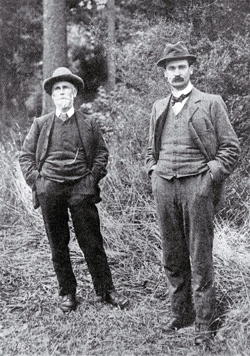 Harry Ell (1862-1934) (right on the picture) was born in Christchurch, a well-known Prohibitionist and parliamentarian from 1899-1919. He was also a conservationist and in particular an advocate of the establishment of a string of reserves along the Port Hills. The first of these, at Kennedy's Bush, he secured in 1906. He wanted a Summit Road to link the reserves and also rest-houses for walkers. Three of these, the Sign of the Bellbird, the Sign of the Kiwi, and the Sign of the Packhorse, were completed in Ell's lifetime. In the Depression he became a major employer of unemployed men who worked on the Summit Road and also the Sign of the Takahe, which was not completed until 1949. Leonard Cockayne (1855-1934) (left on the picture) was born in England, coming to Australia and then New Zealand as a teacher. Although he had but a sketchy education, he became one of the founders of science, especially botany, in this country. After 1892 he had the Tarata experimental garden near New Brighton. He wrote reports for the Government and many articles and books, namely New Zealand plants and their story, and, The vegetation of New Zealand